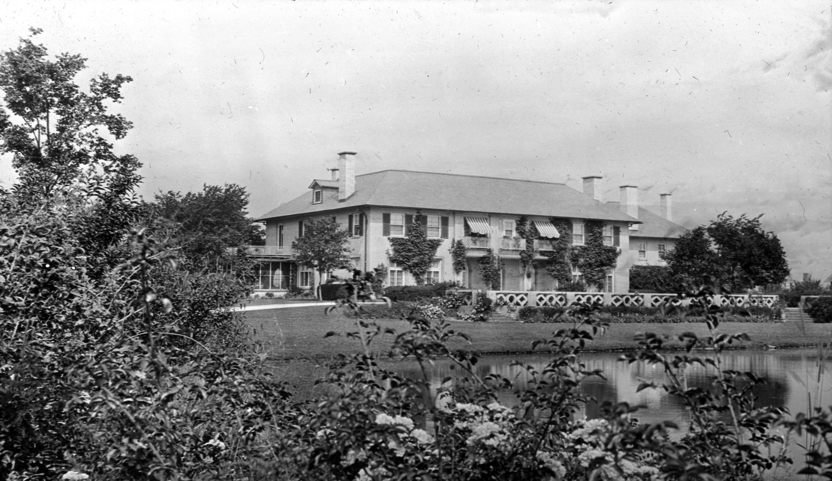 Original Collection: Arthur Peck Collection, P99 Item Number: P099_D_017 You can find this image by searching for the item number by clicking here. Want more? You can find more digital resources online. We're happy for you to share this digital image within the spirit of The Commons; however, certain restrictions on high quality reproductions of the original physical version may apply. To read more about what “no known restrictions” means, please visit the Special Collections & Archives website, or contact staff at the OSU Special Collections & Archives Research Center for details.